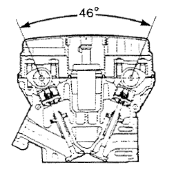 Valve angle of the cilinderhead of the C20XE General Motors Engine.